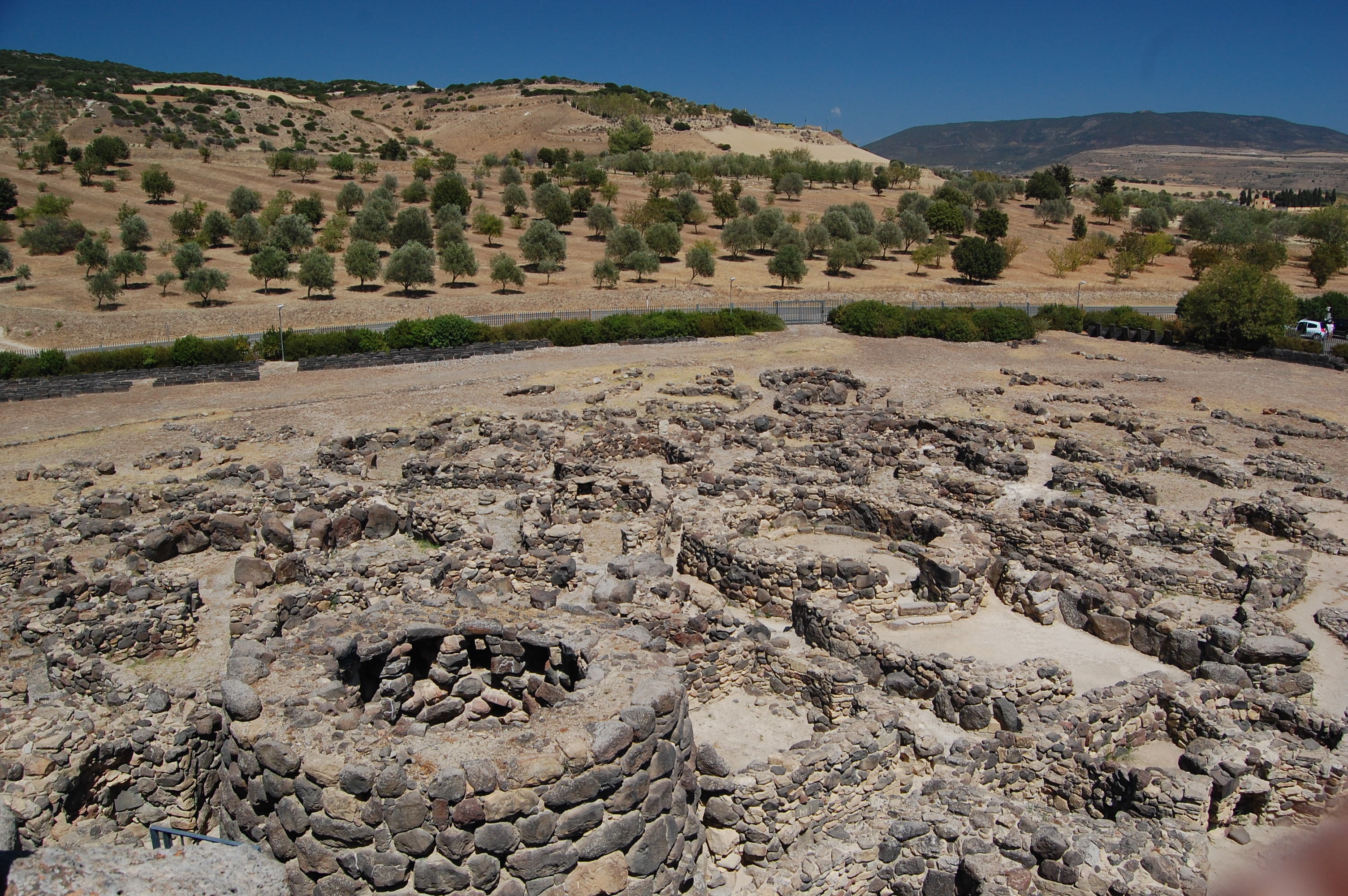 Buildings around Su Naraxi in Sardinia - Italy.